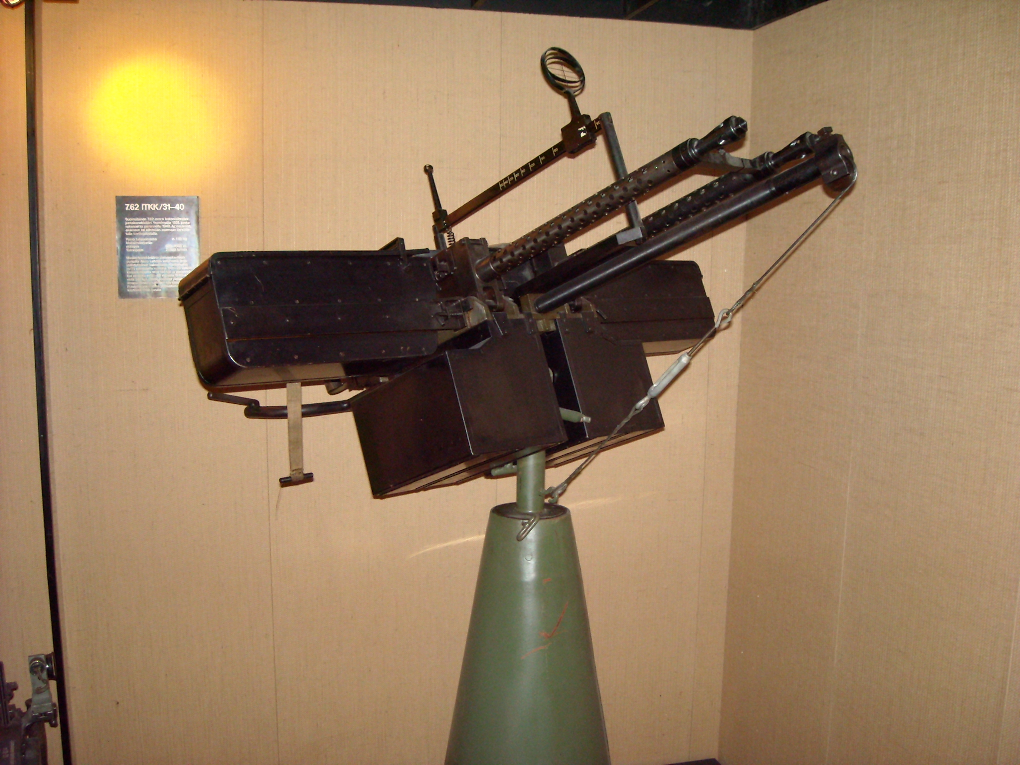 Finnish made 7,62 mm anti-aircraft machinegun m/1931-40.